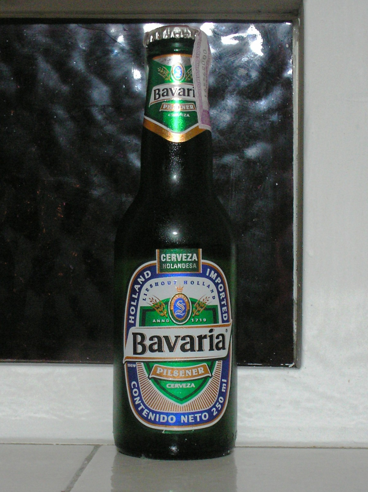 A 250 ml Bavaria's beer bottle.